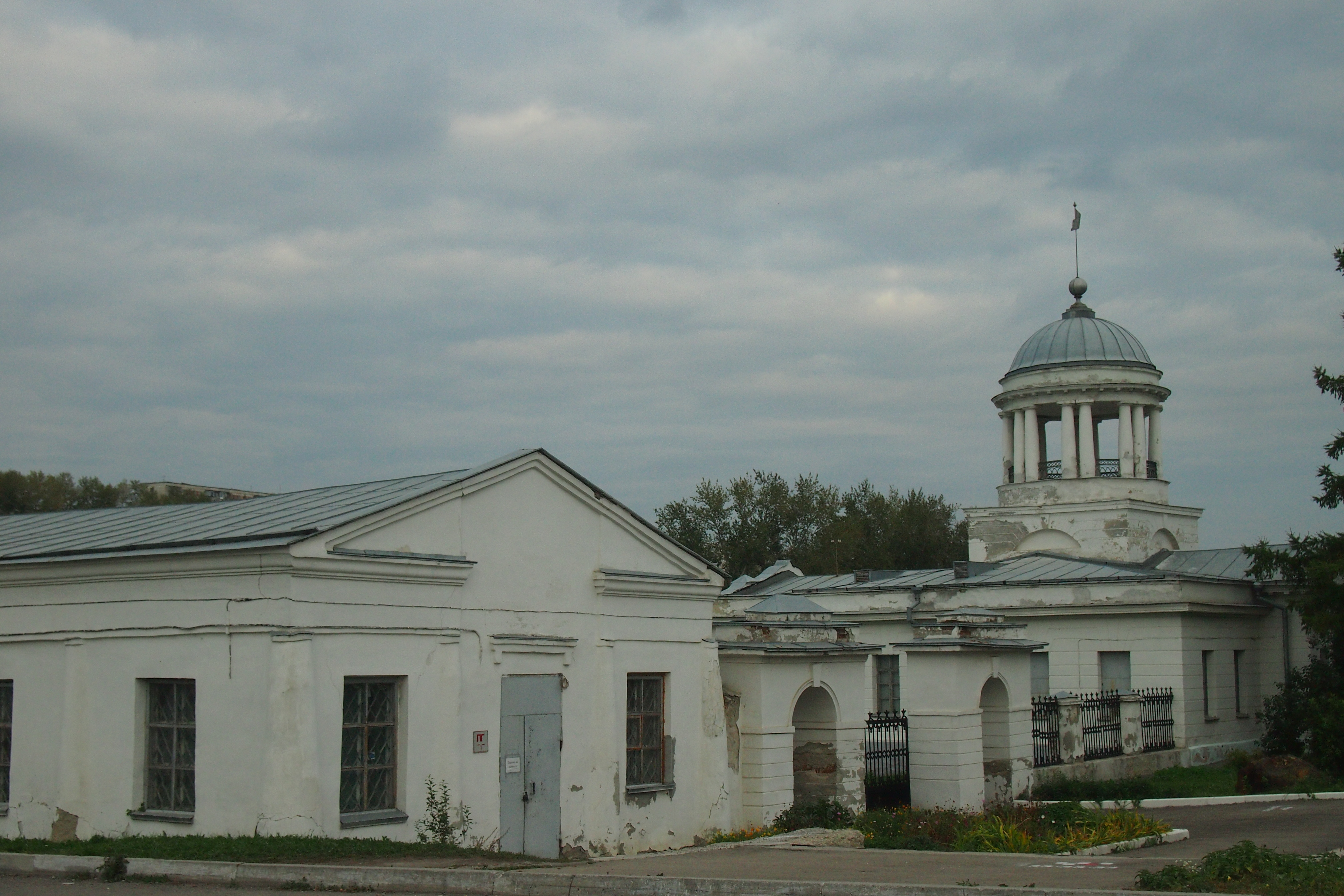 Bureau Kamensky plant in Kamensk-Uralsky, Sverdlovsk oblast, Russia